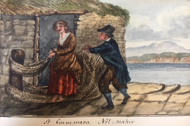 'A Connemara net-maker'. Watercolour by Louisa Beaufort, 1857. Trinity College Dublin MS 8269